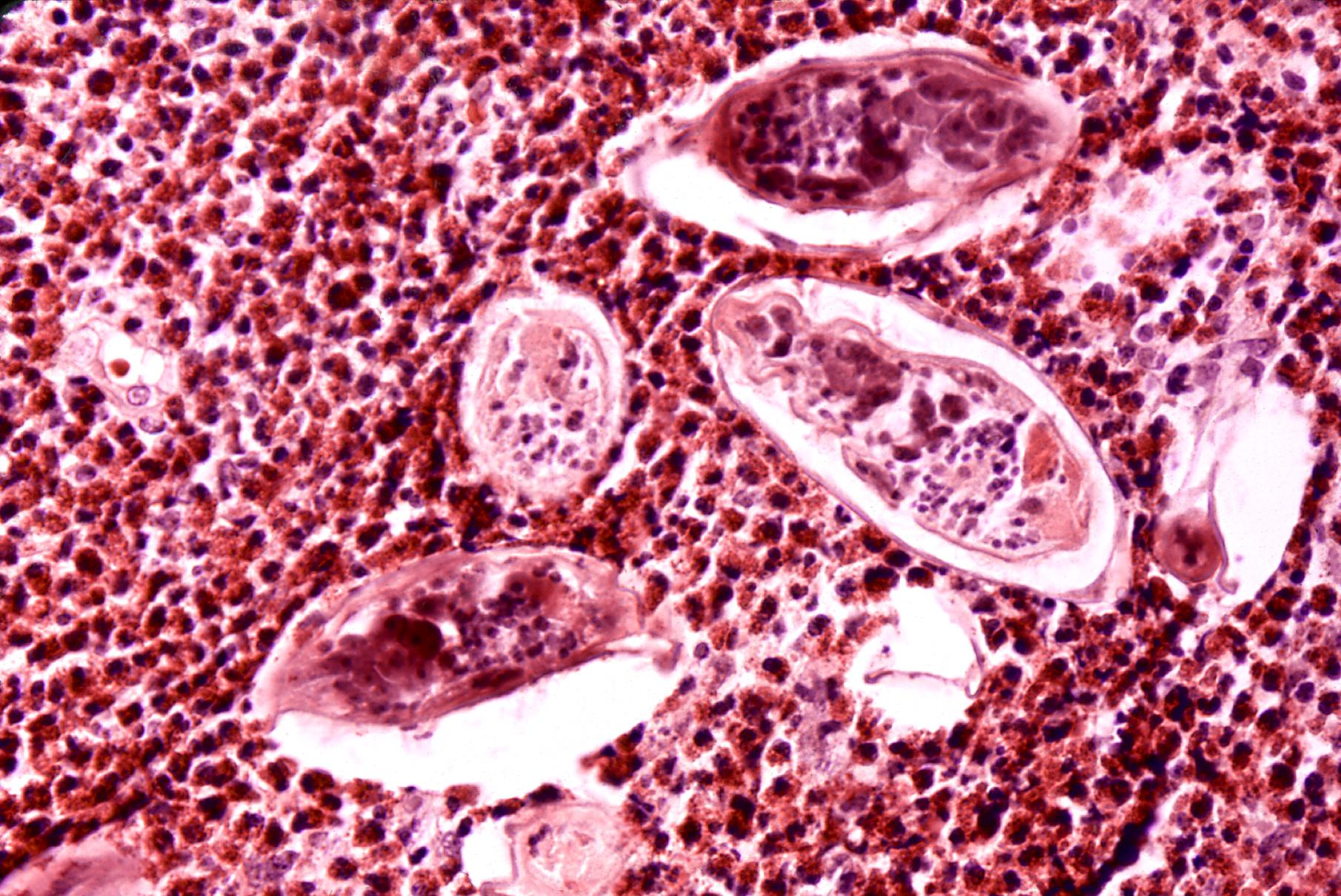 Histopathology of schistosomiasis haematobia, bladder Histopathology of bladder shows eggs of Schistosoma haematobium surrounded by intense infiltrates of eosinophils. Parasite.